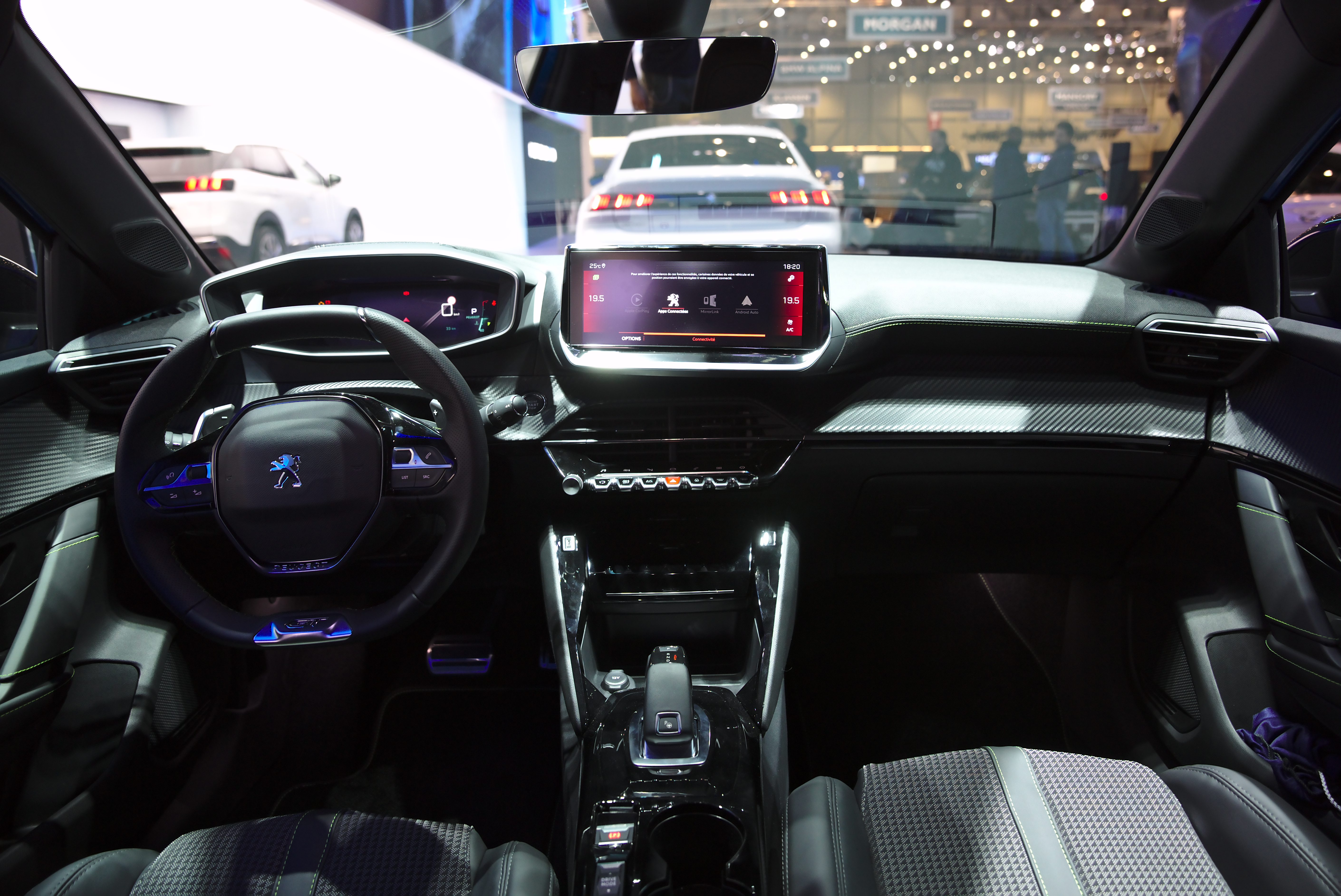 Peugeot 208 GT-Line at Geneva Motor Show 2019